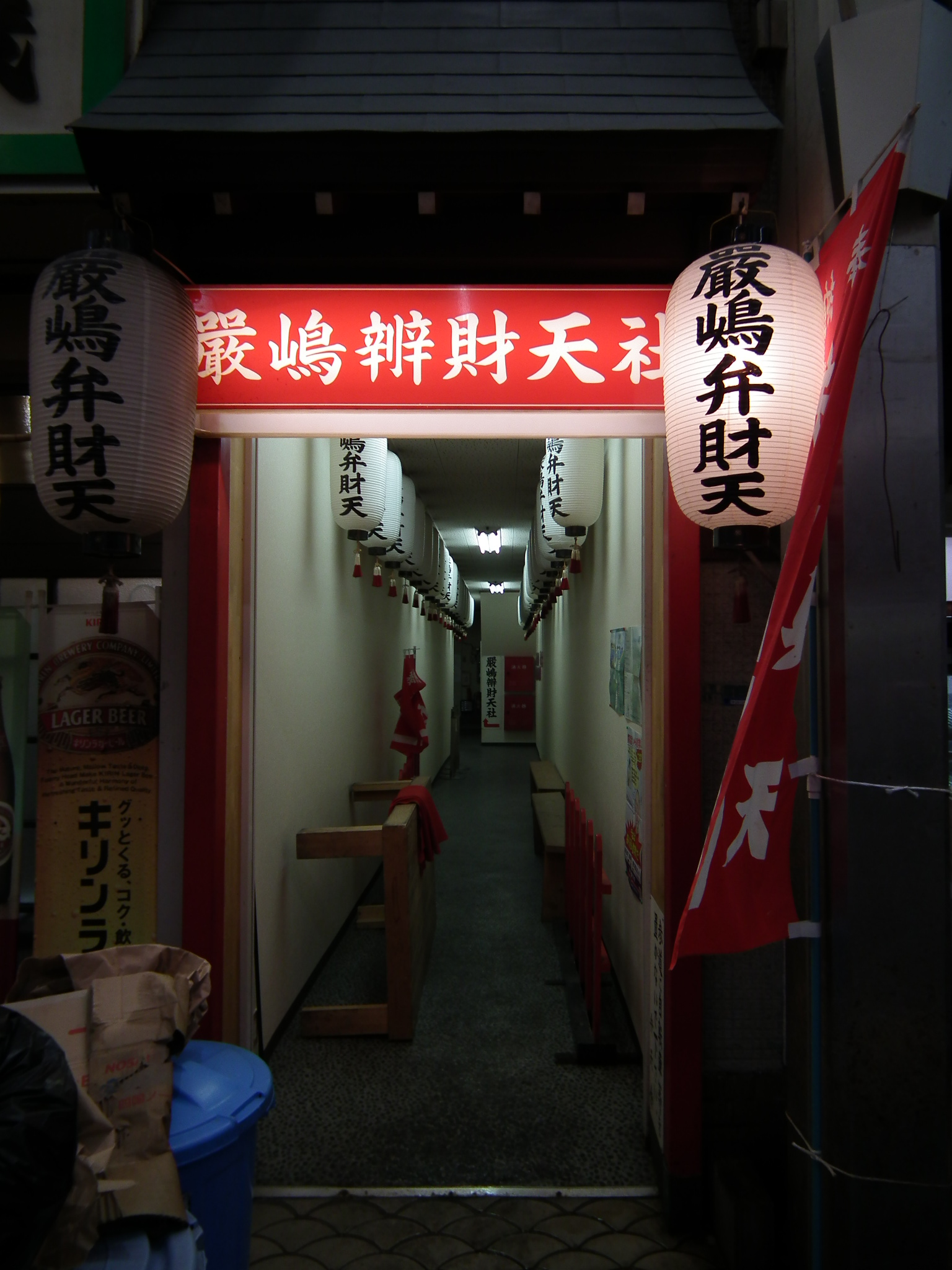 Itsukushima-benzaiten, Akashi.